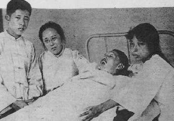 Liao Zhongkai on his deathbed after being shot by assassins, surrounded by family